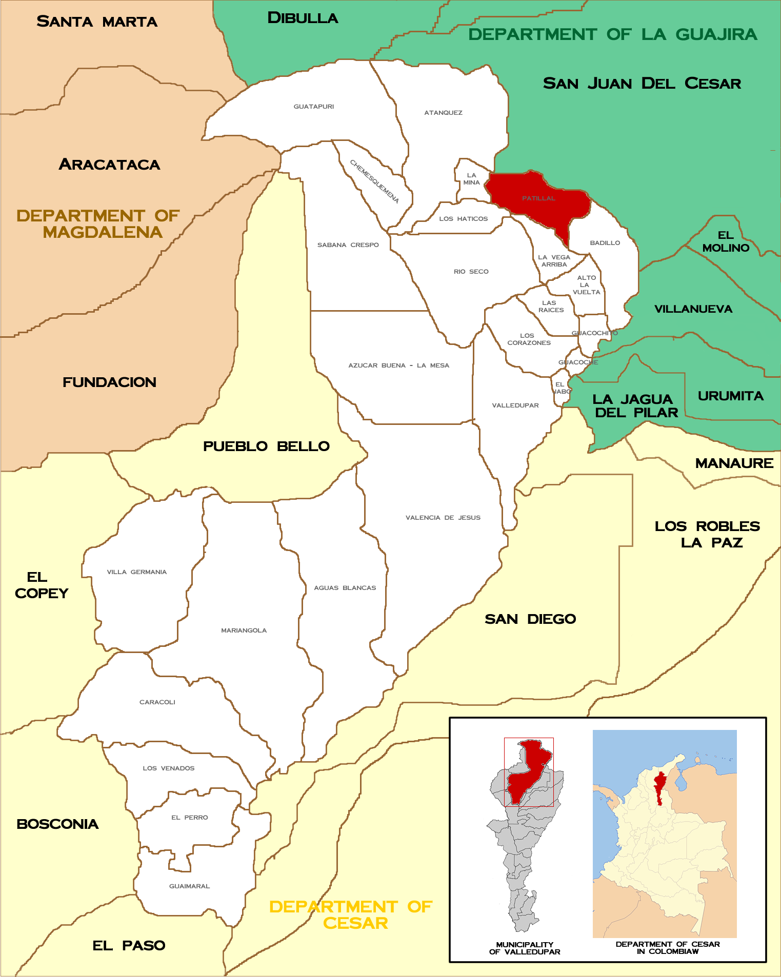 Map of Corregimientos of Valledupar